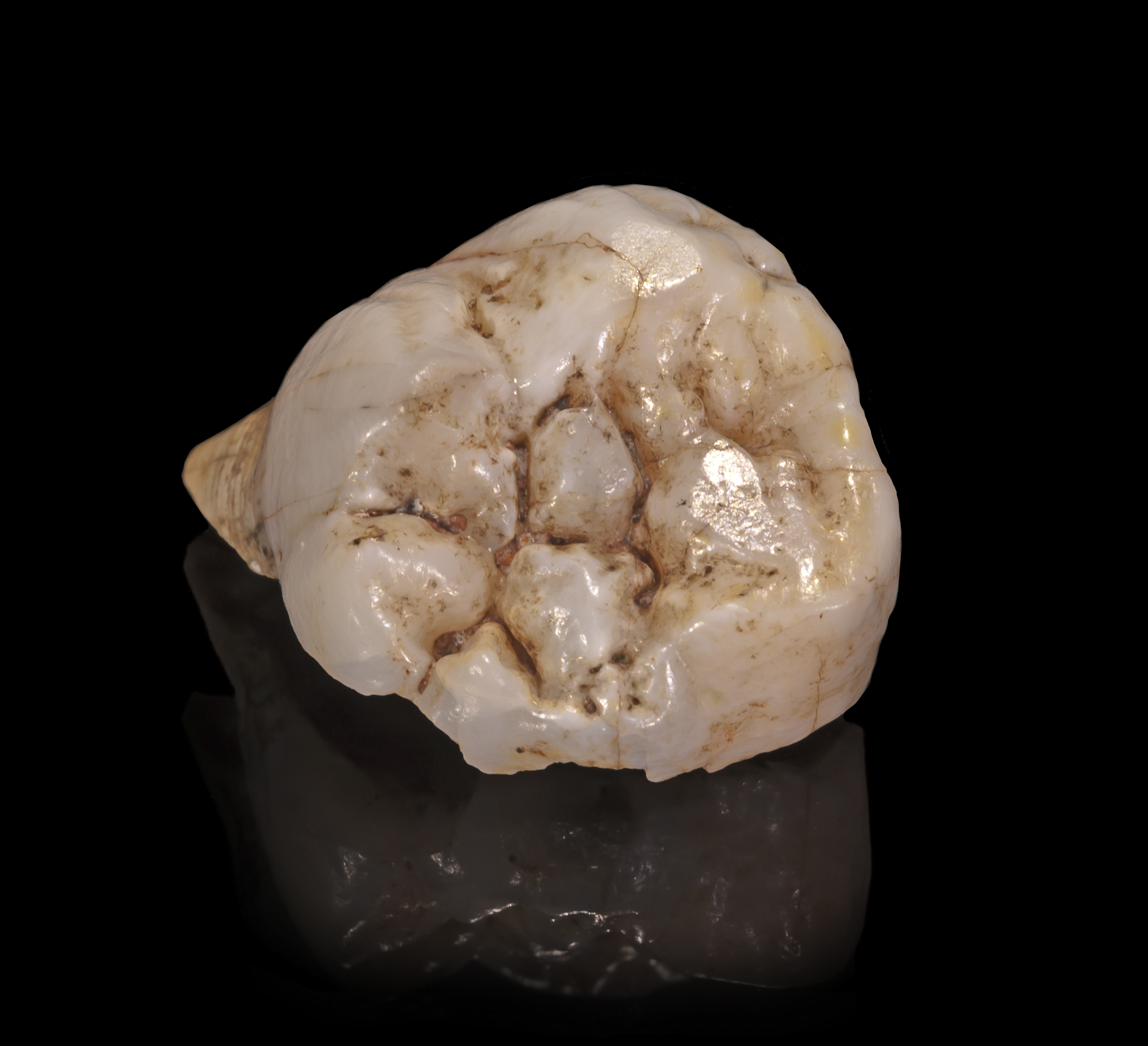 Tooth of Paranthropus robustus SKX 11 from Swartkrans (26°00'S 27°45'E), Gauteng, South Africa to 1.8 million years. Collection of the Transvaal Museum, Northern Flagship Institute, Pretoria South-Africa - Top View - (21.53x15.20x15.49 mm)